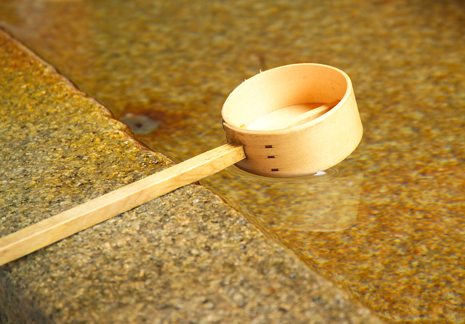 Basin and dipper at Itsukushima Shrine, Miyajima, Hiroshima Prefecture, Japan. I took the photo.